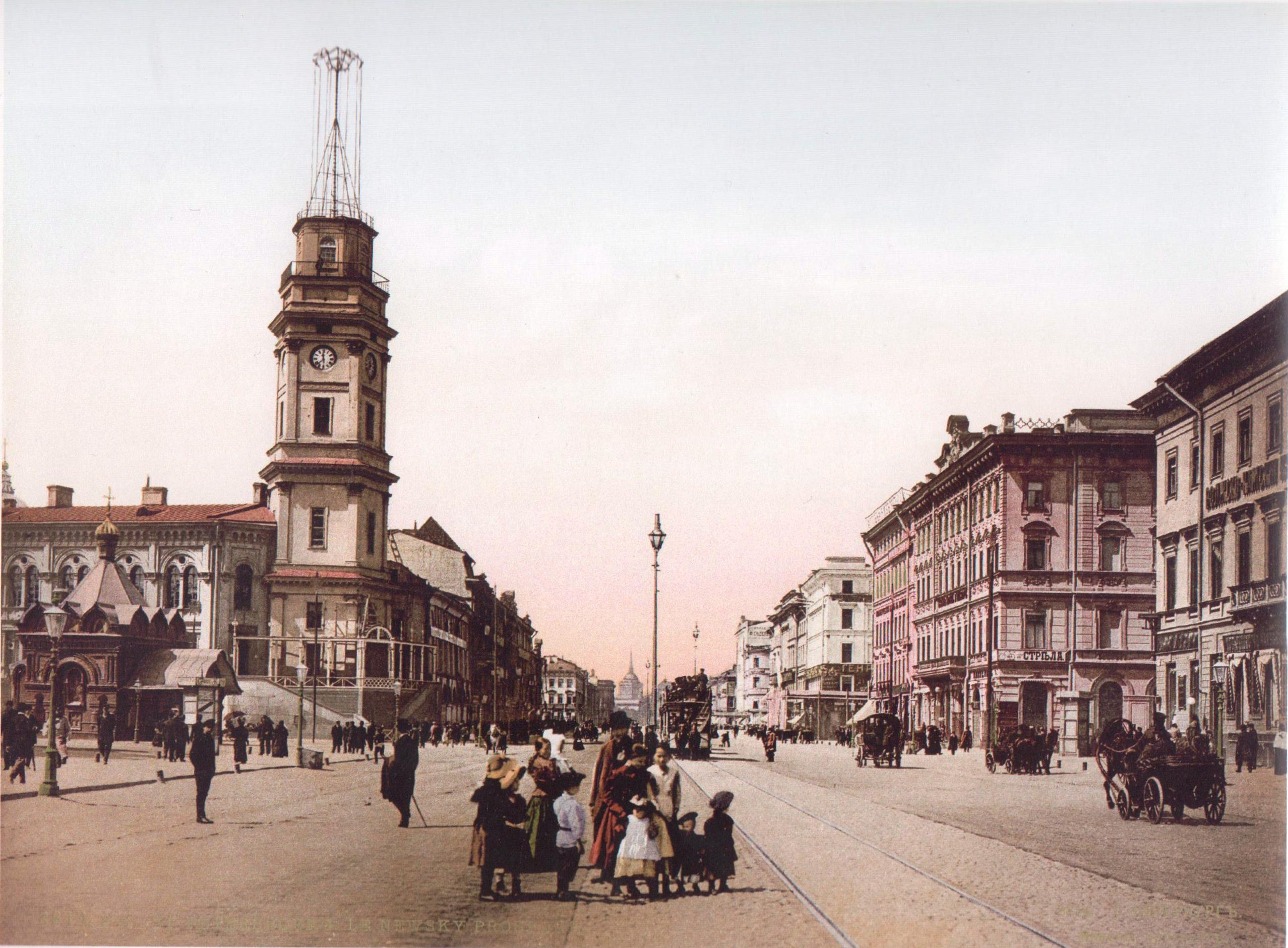 Nevsky Prospekt with City Duma Tower in Saint Petersburg, Russia. Colored photochrome print; 16 x 22 cm. (6 x 8 1/2 in.)